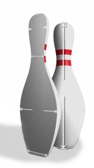 bowling